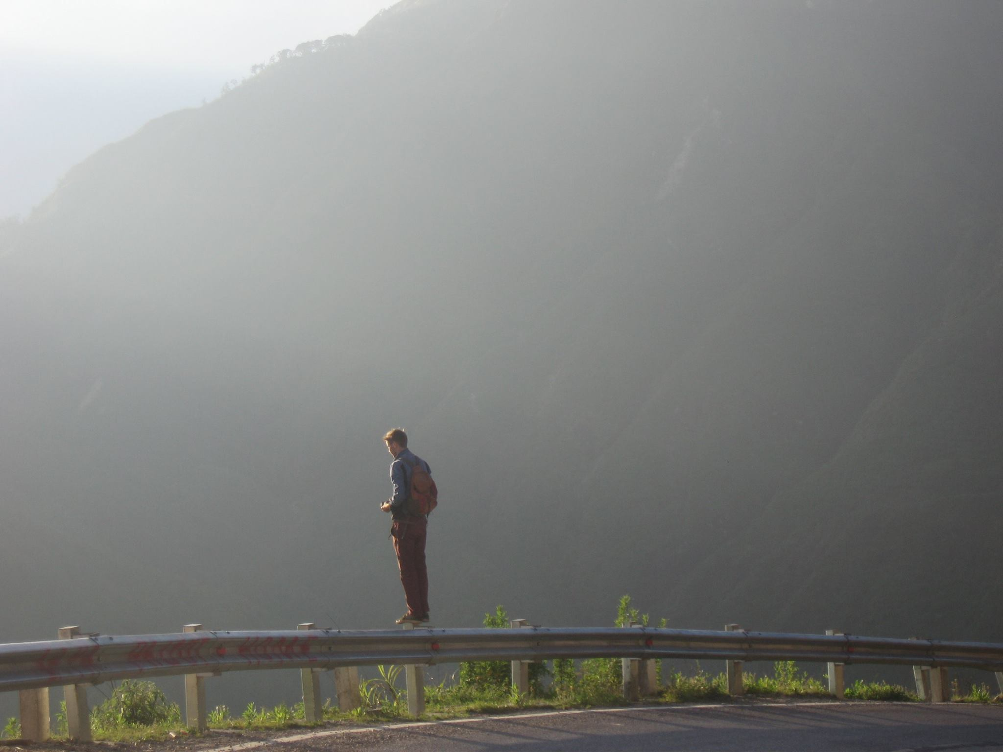 A Tourist on the top of O Quy Ho pass